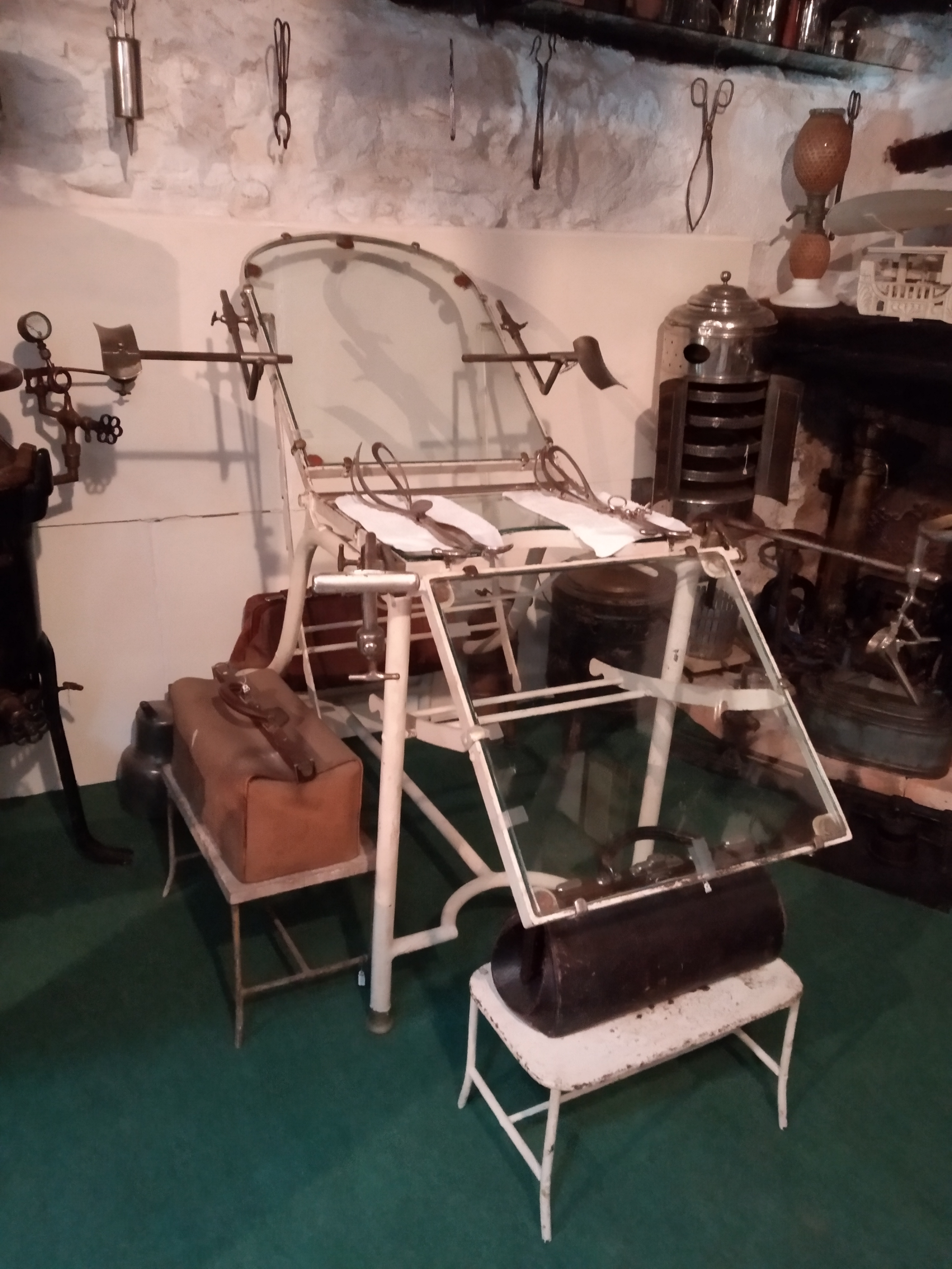 antique obstetrical chair anf forceps at the Ethnographic Museum of the Kingdom of Navarre